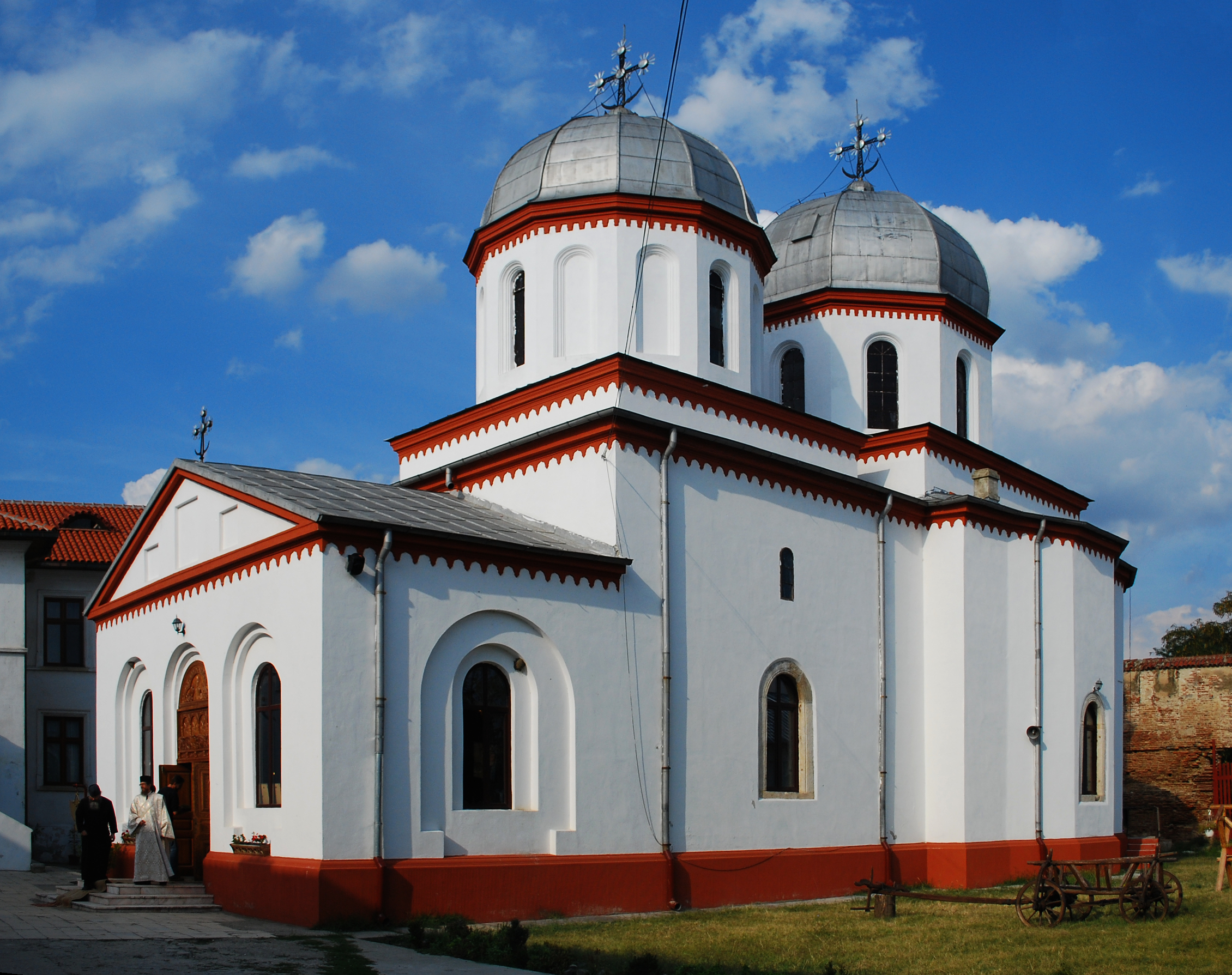 Comana Romanian orthodox monastery church, in Comana, Giurgiu County, Romania